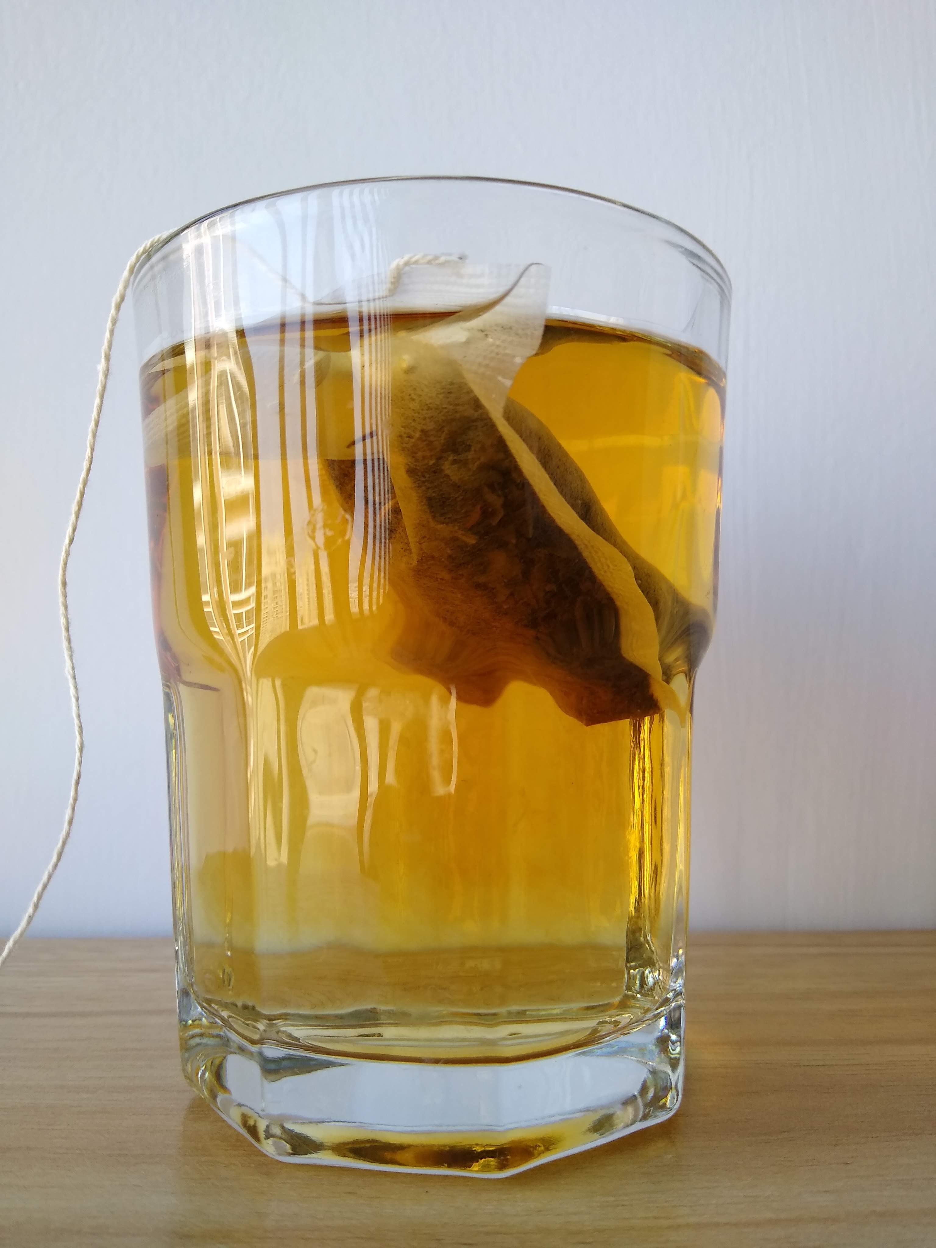 Alishan tea (gaoshan tea) from Taiwan, bought in Danshui (Tamsui 淡水).